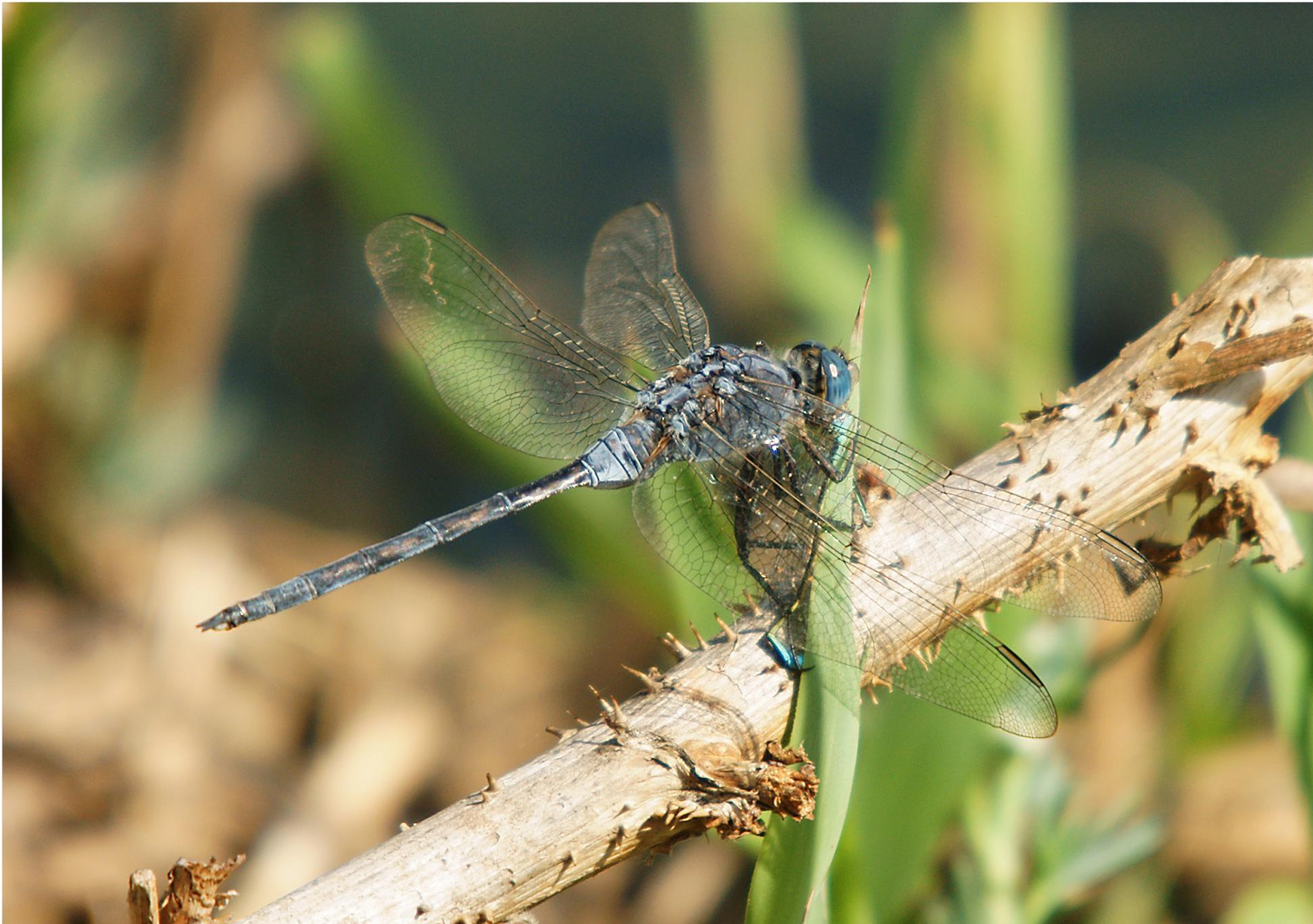 Dragonfly eating a Ischnura elegans - Long Skimmer - Orthetrum trinacria